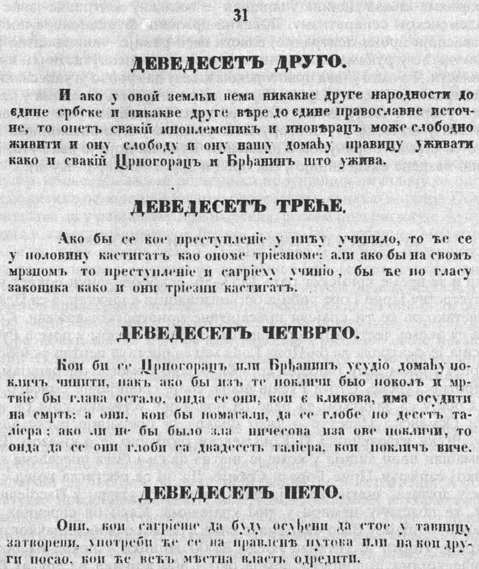 Scanned part of the Code of Danilo, Prince of Montenegro